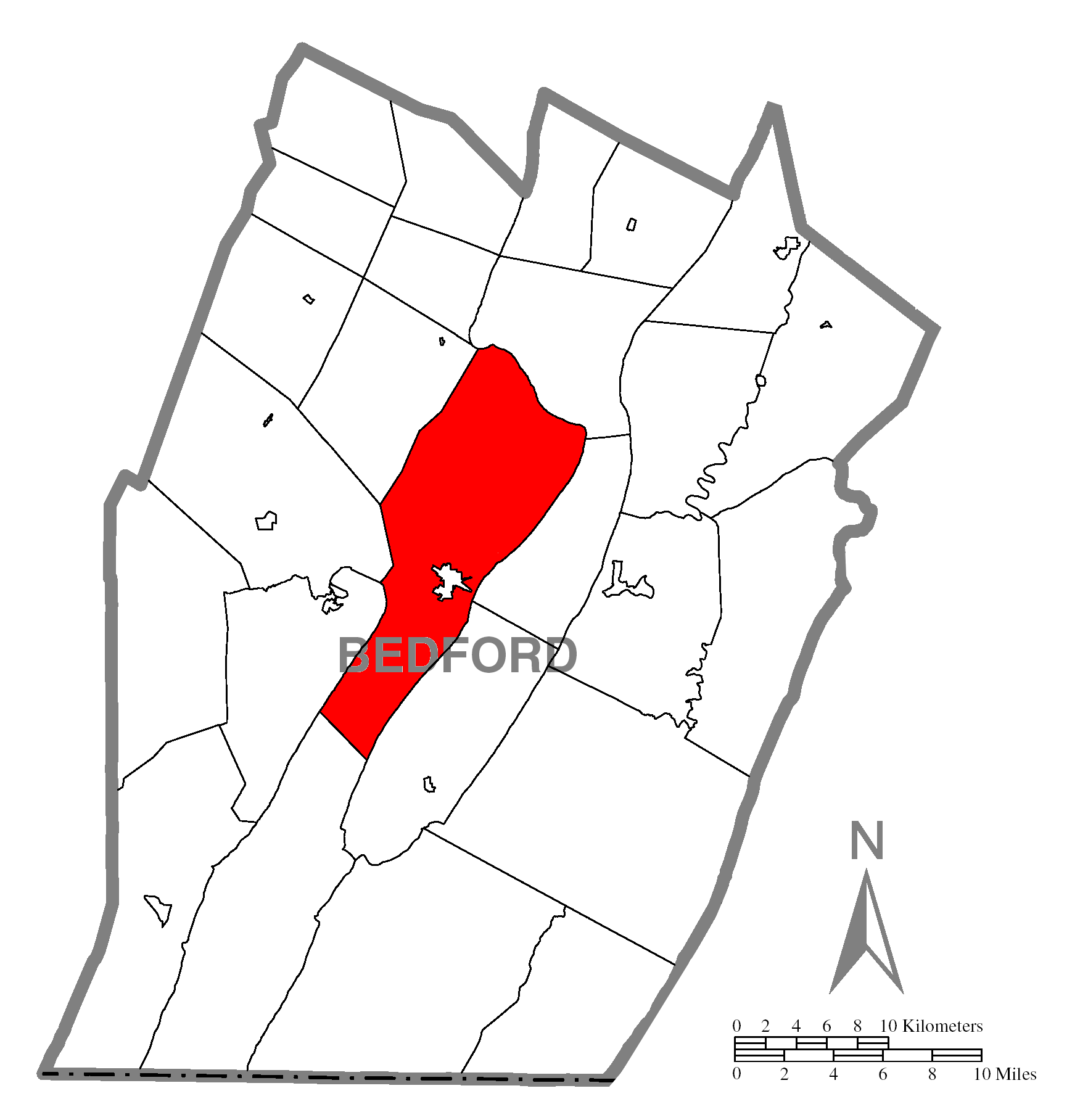 A map of Bedford County showing Bedford Township, Pennsylvania (alternate) highlighted on the map.